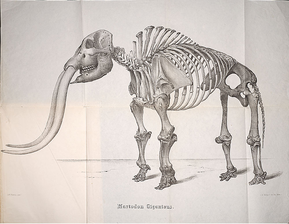 Plate from: John Collins Warren. The Mastodon giganteus of North America, 1852. Date of Image: 1852 Caption on Image:B.F. Nutting pinx / Mastodon Giganteus / J. H. Bufford & Co's Lith. Boston (In the collection of Smithsonian Institution, Washington DC)